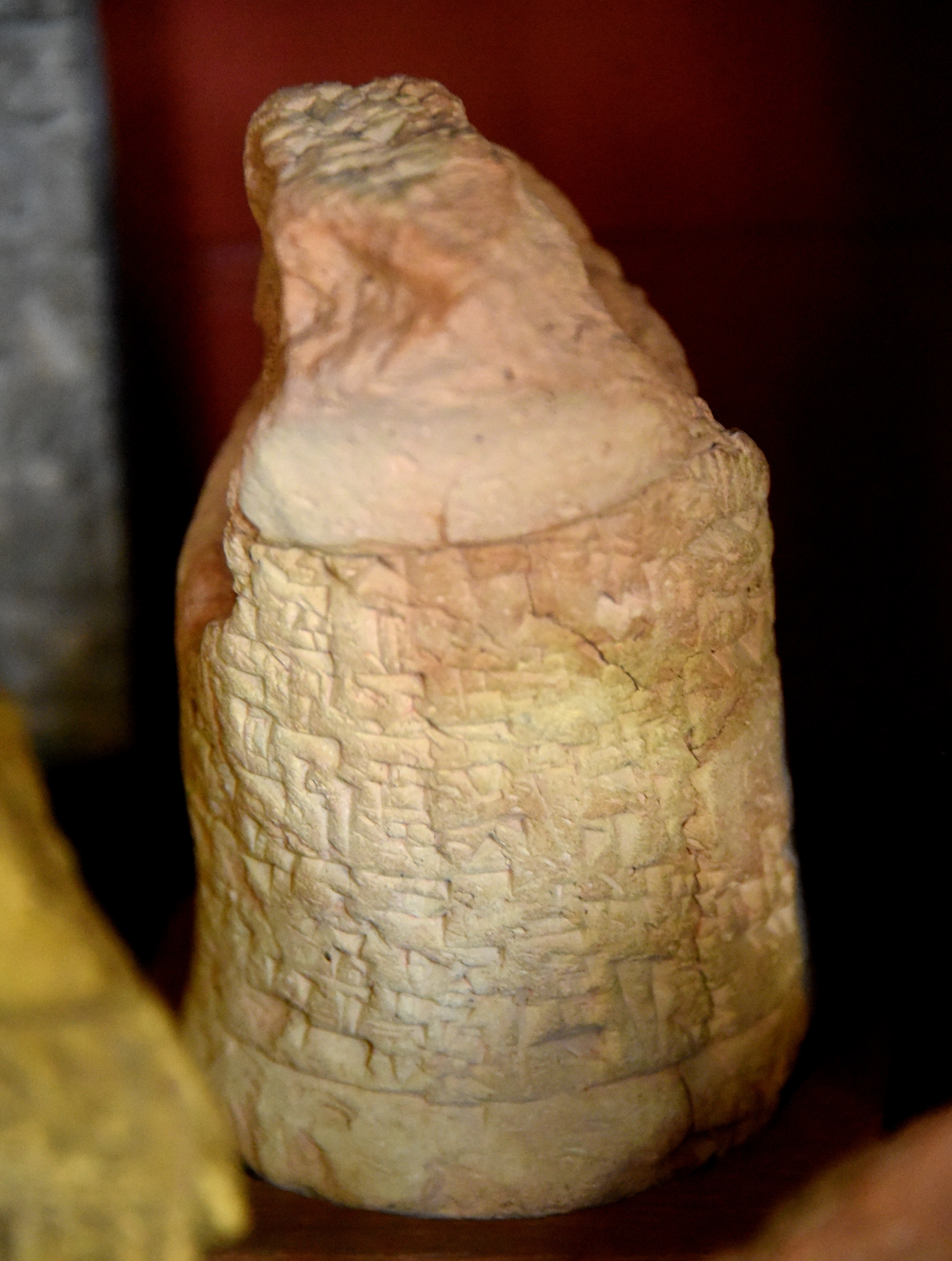 Dedicatory clay cone inscribed with the name of Sin-Kashid (Sîn-kāšid). 18th century BC. From Uruk (Warka), southern Mesopotamia, modern-day Iraq. It is currently housed in the British Museum